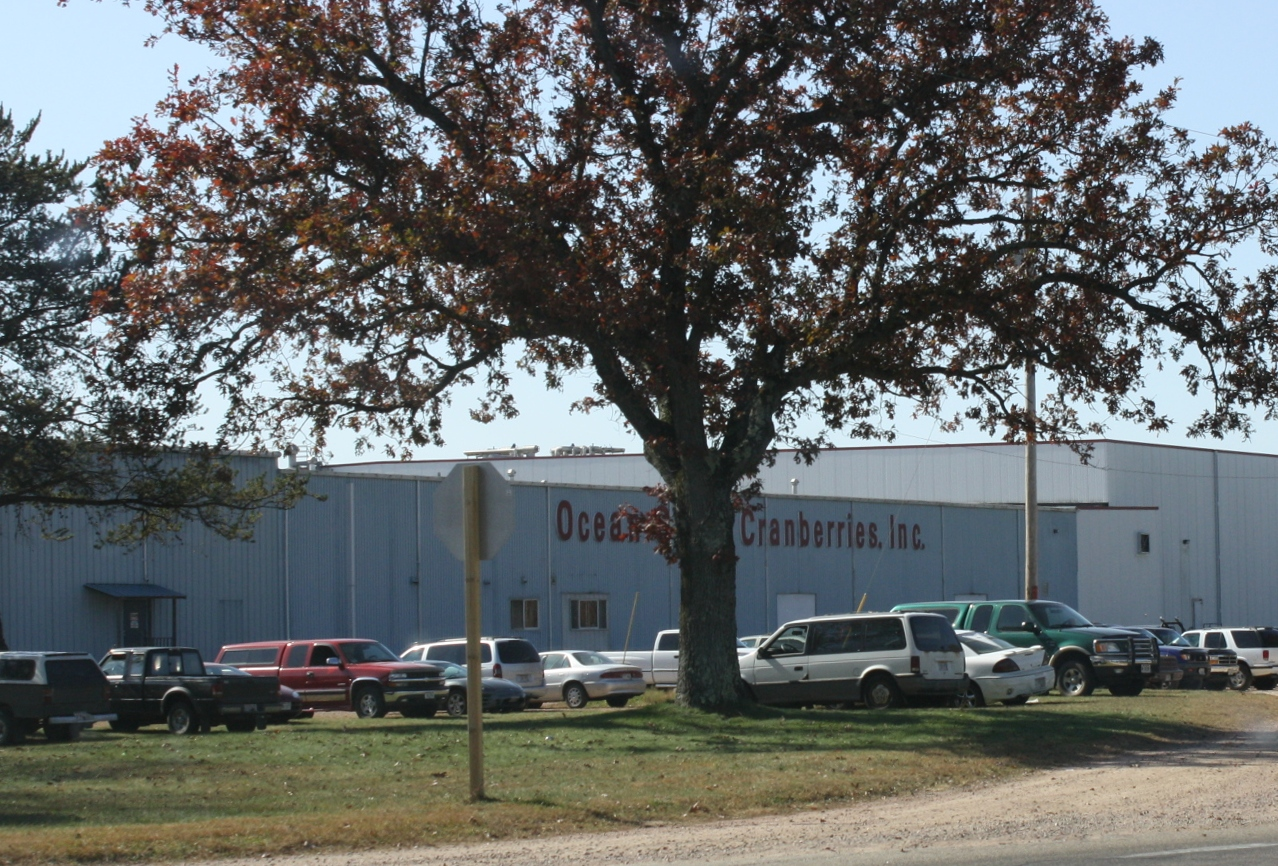 The Ocean Spray (cooperative) cranberry processing plant near Babcock, Wisconsin on Wisconsin Highway 173 Wisconsin Highway 80.